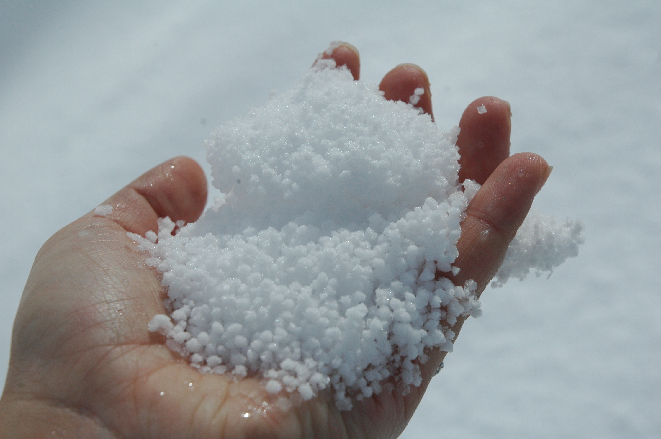 Grapple snow